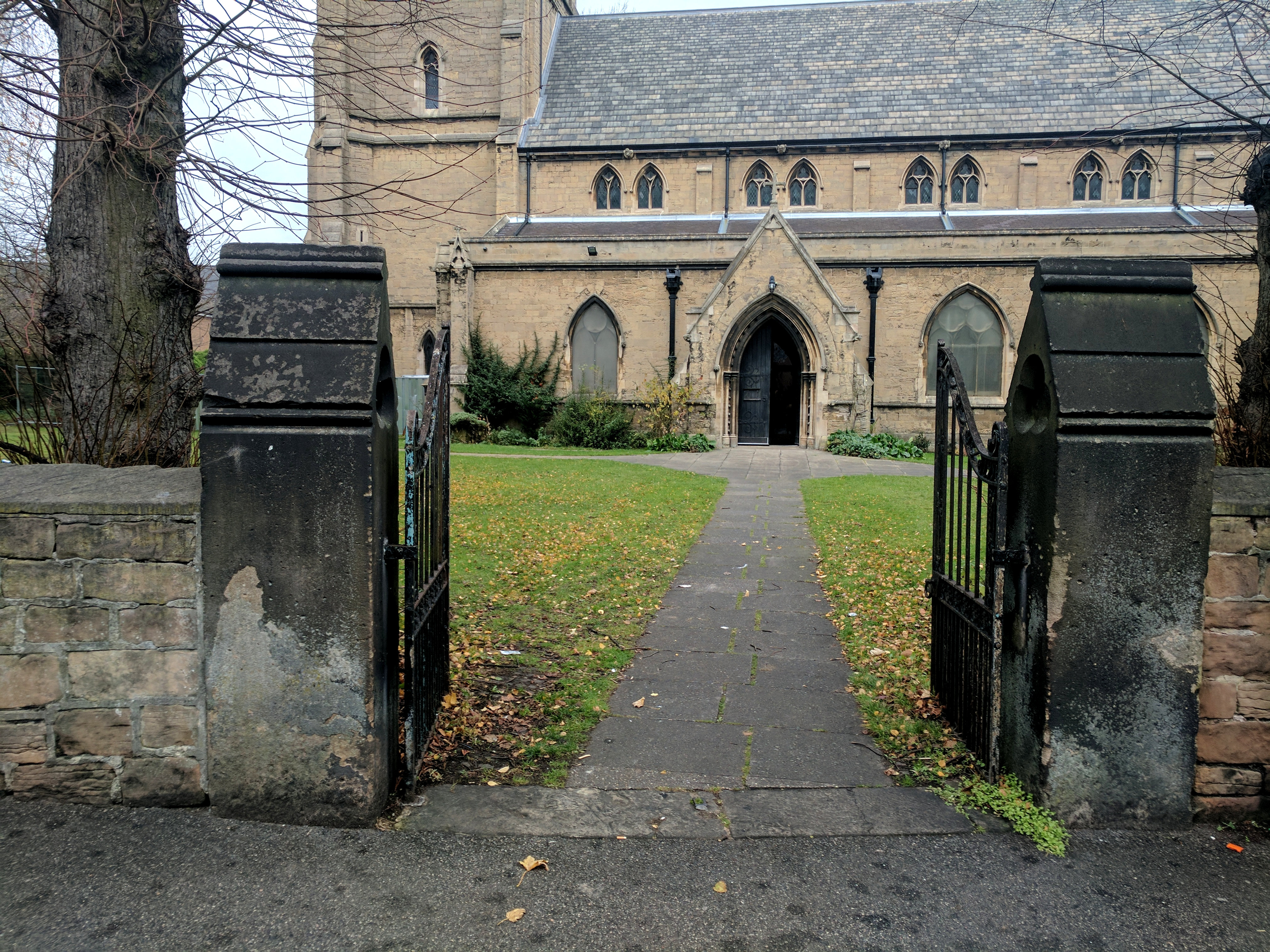 Wall And Gate Piers To Churchyard Of St John The Evangelist, St John's St, Mansfield Wikidata has entry Q26502355 with data related to this item.